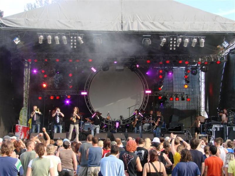 Band Kryštof in Rockfest